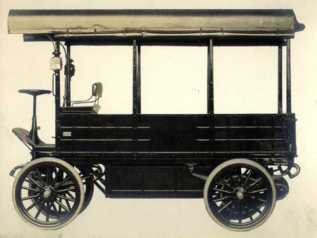 This is a photo of the Electric Bus Studebaker Built and it was called Omni Bus. This pick can be found on many websites. This photo was mostlike been taken and published before 1923, because Stuebaker did not build any moe elerctric vehicles after 1912